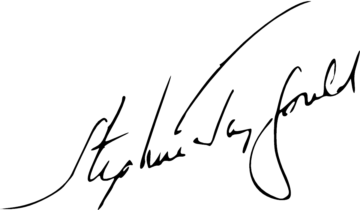 Signature of Stephen Jay Gould